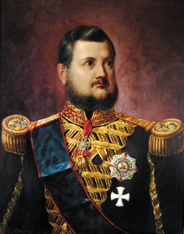 Portrait of Ferdinand II of the Two Sicilies (1810-1859) 80cmx64cm